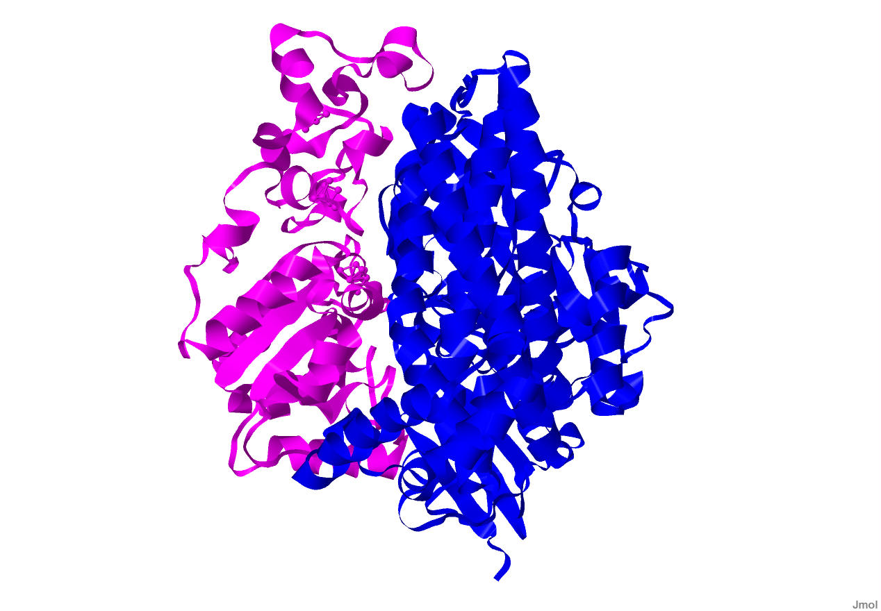 Overall structure of D. vulgaris Miyazaki F [NiFe] hydrogenase